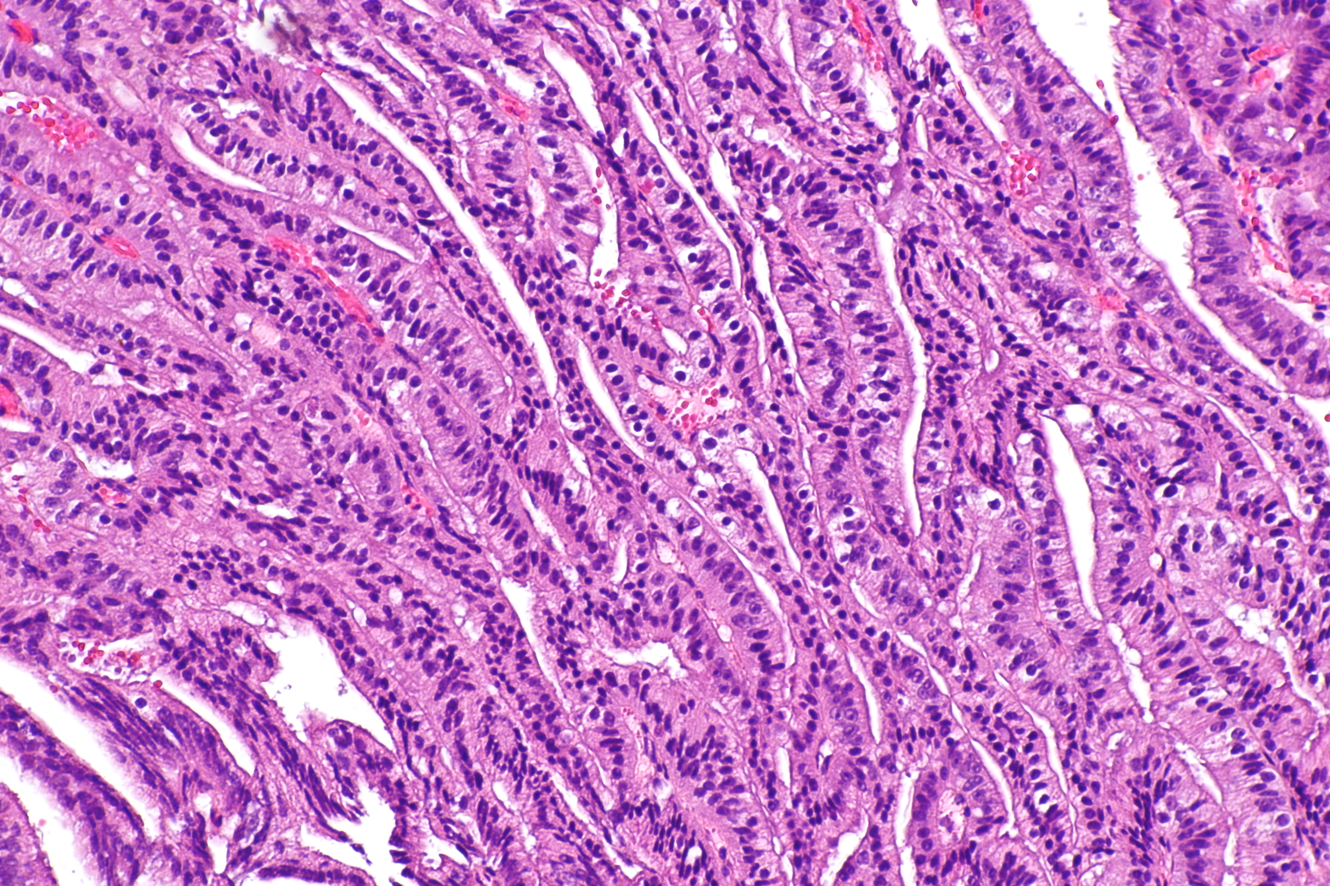 Micrograph showing ductal adenocarcinoma of the prostate gland, also prostatic ductal adenocarcinoma. H&E stain. Related images DAP - low mag. DAP - intermed. mag. DAP - high mag. DAP - very high mag.